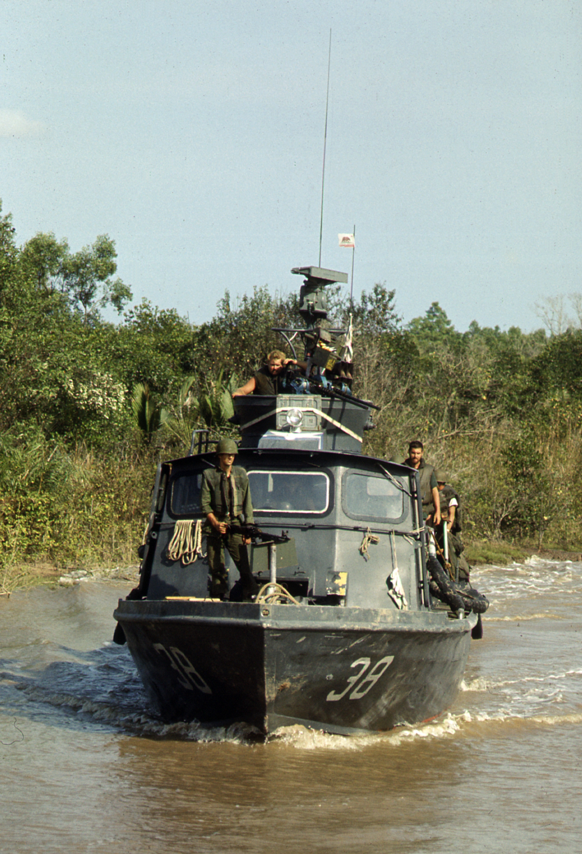 The U.S. Navy fast patrol craft PCF-38 of Coastal Division 11 patrols the Cai Ngay Canal in South Vietnam.